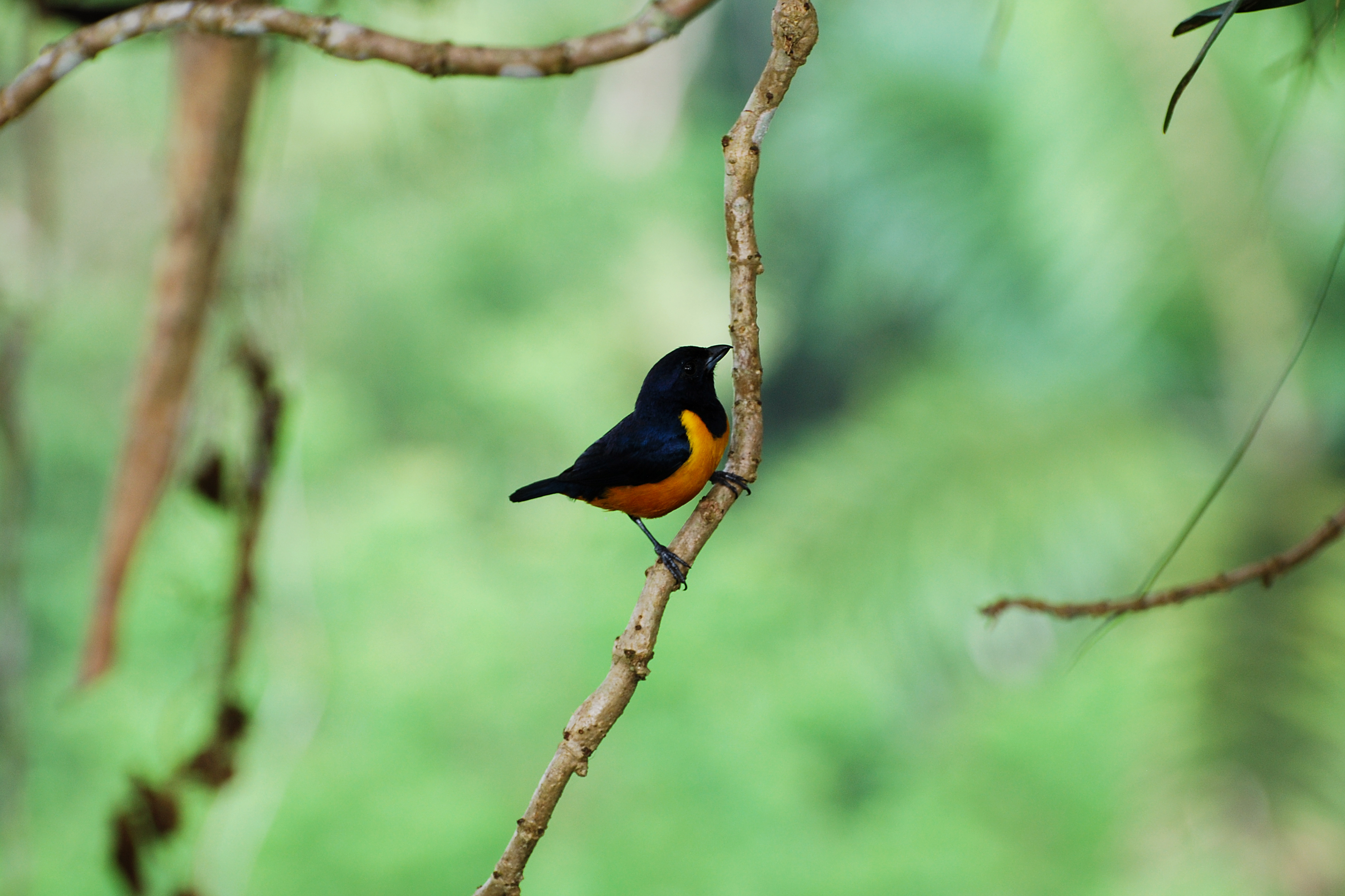 Thraupidae: Euphonia rufiventris Seen at Sacha Lodge, Napo, Ecuador